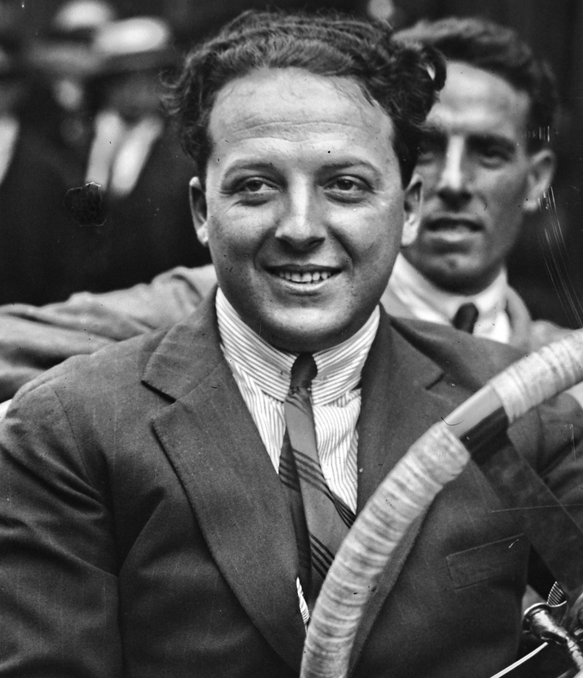 Giulio Masetti at the 1922 French Grand Prix